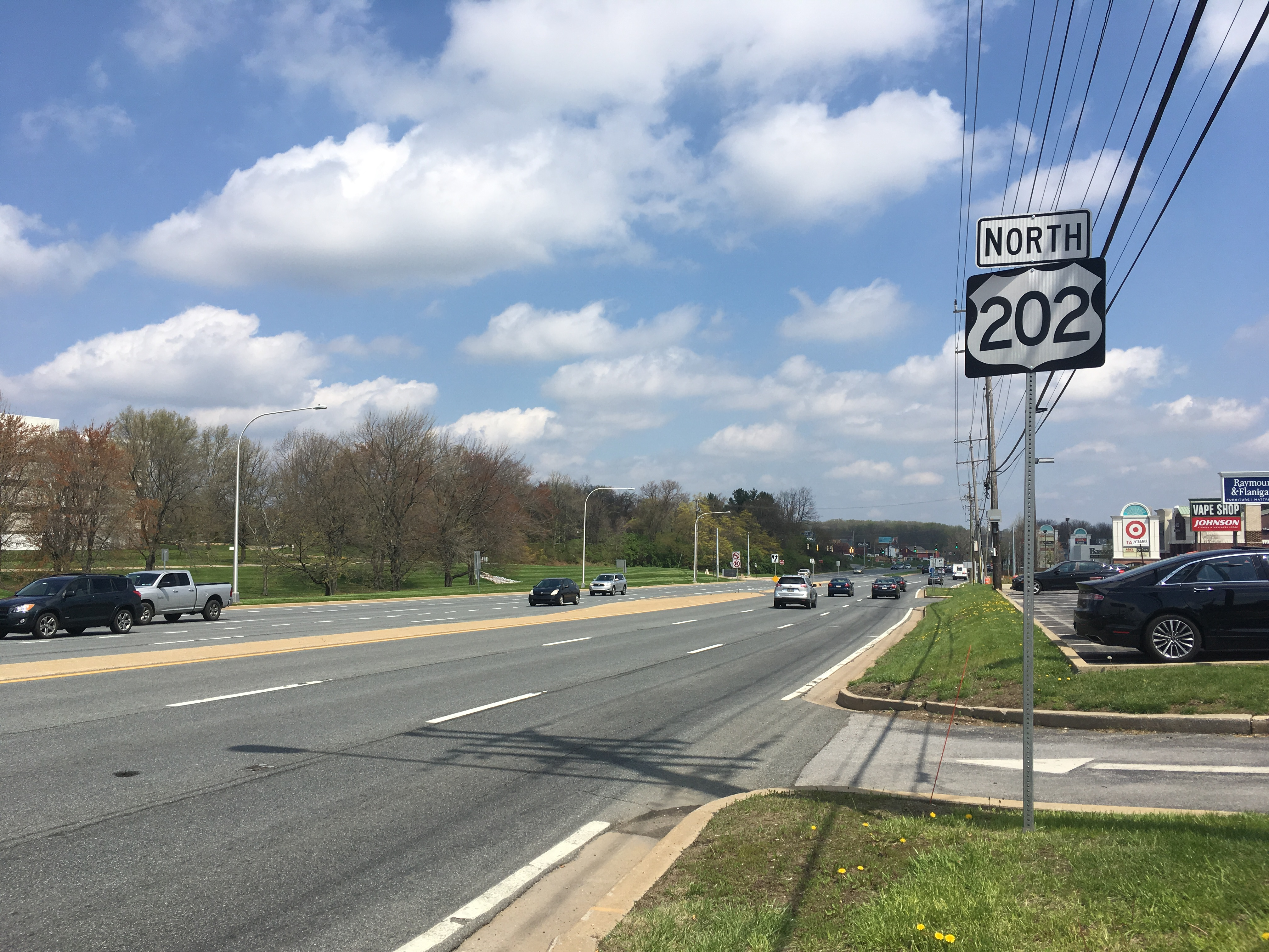 Northbound U.S. Route 202 (Concord Pike) past the intersection with Delaware Route 92 (Naamans Road) north of Wilmington, Delaware